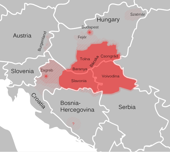 The incidence area of The "Central European" tambura.